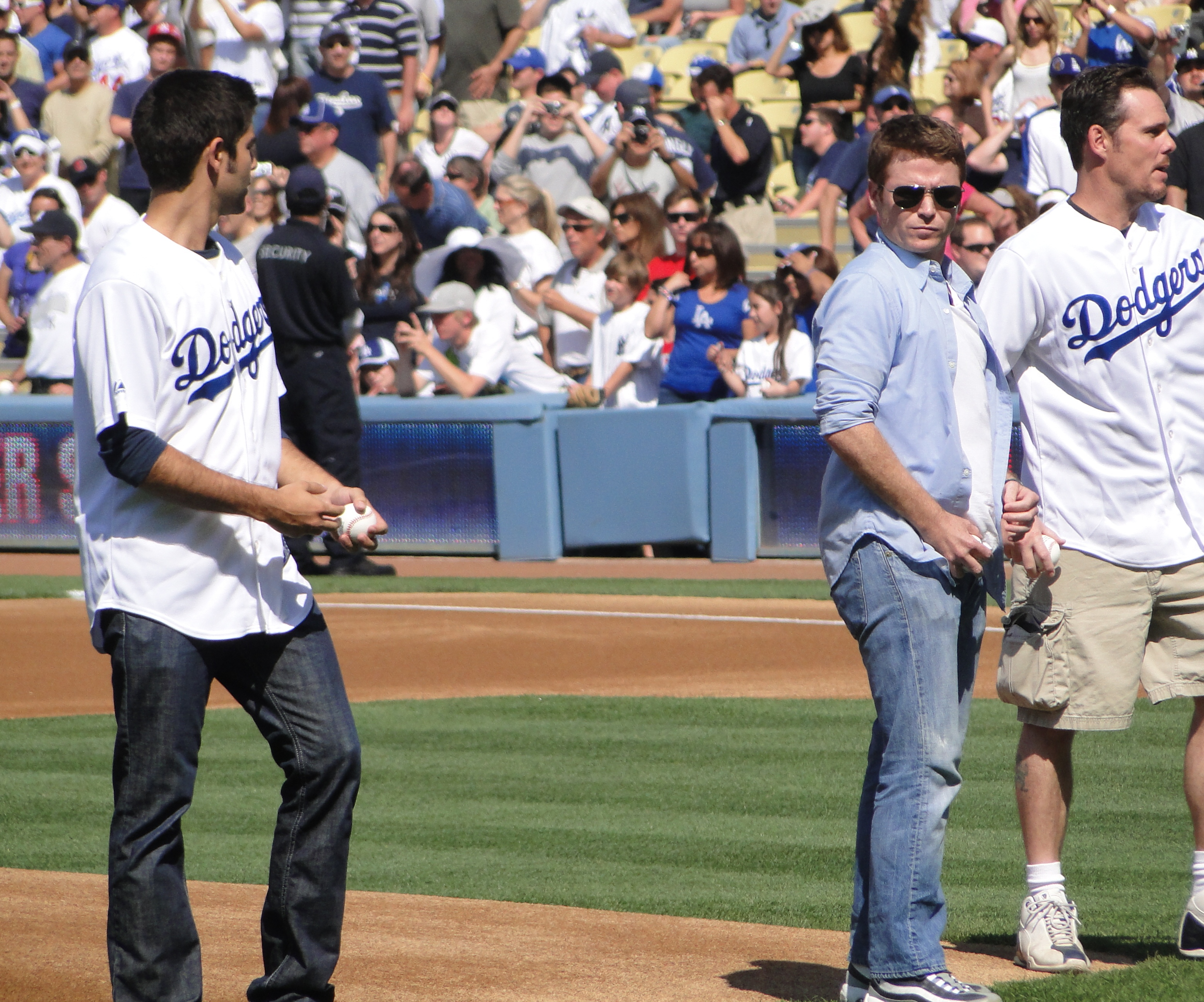 Description Adrian Grenier, Kevin Connolly (actor), and Kevin Dillon on mound at Dodger Stadium to throw out first pitch vs. New York Yankees Date26 June 2010SourceI (Cbl62 (talk)) created this work entirely by myself.AuthorCbl62 (talk) 05:40, 27 June 2010 (UTC) 05:40, 27 June 2010 . . Cbl62 . . 3,112×2,592 (2.7 MB) Adrian Grenier, Kevin Connolly (actor), and Kevin Dillon on mound at Dodger Stadium to throw out first pitch vs. New York Yankees